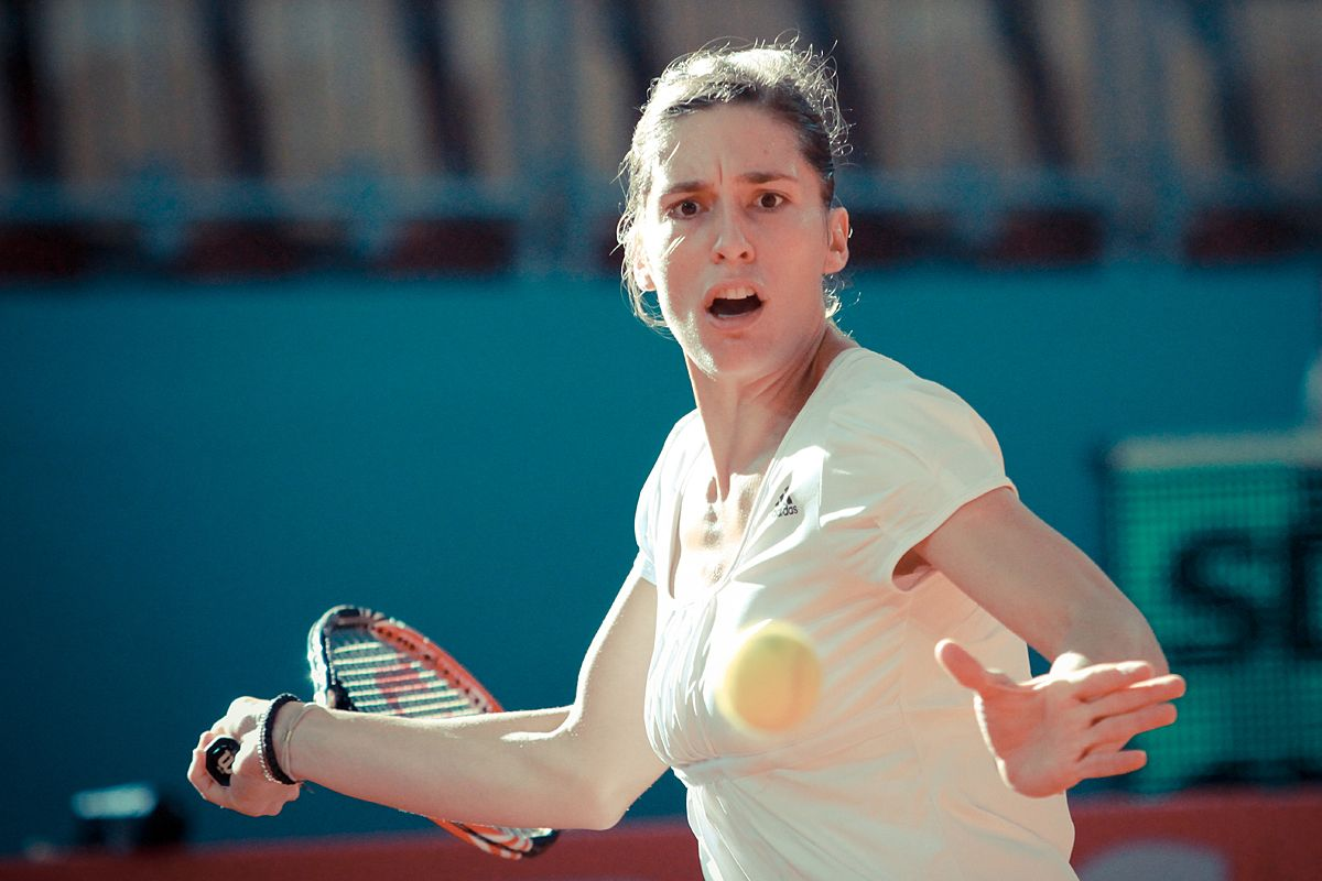 Andrea Petković at the 2011 Fed Cup vs Slovenia in Maribor